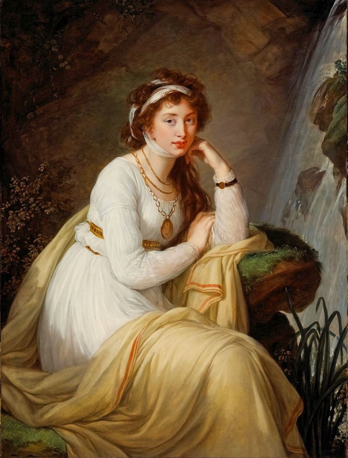 Portrait of Anna Ivanovna Tolstoy (Baryatinskaya)